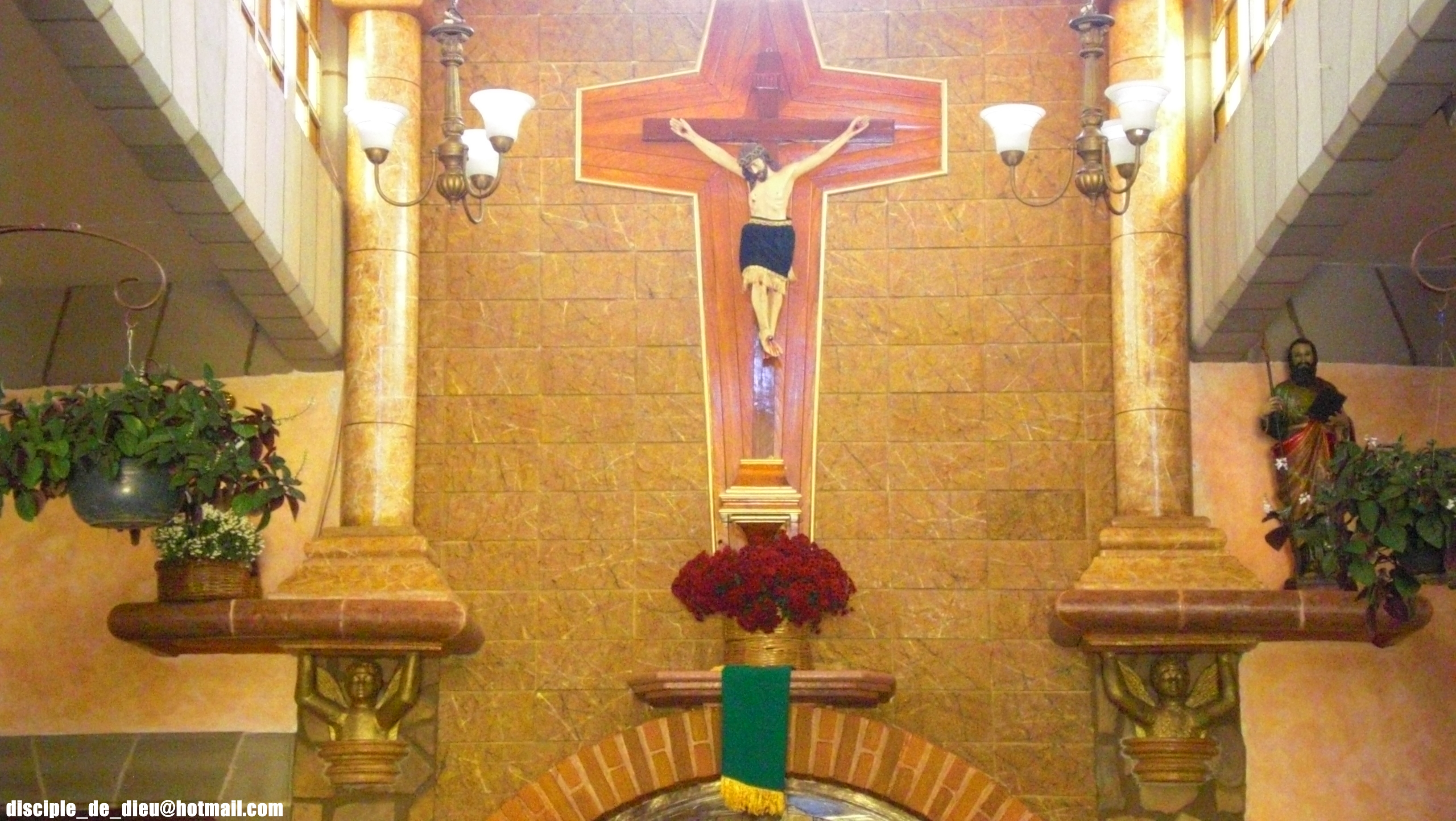 Sede Atlatlahucan